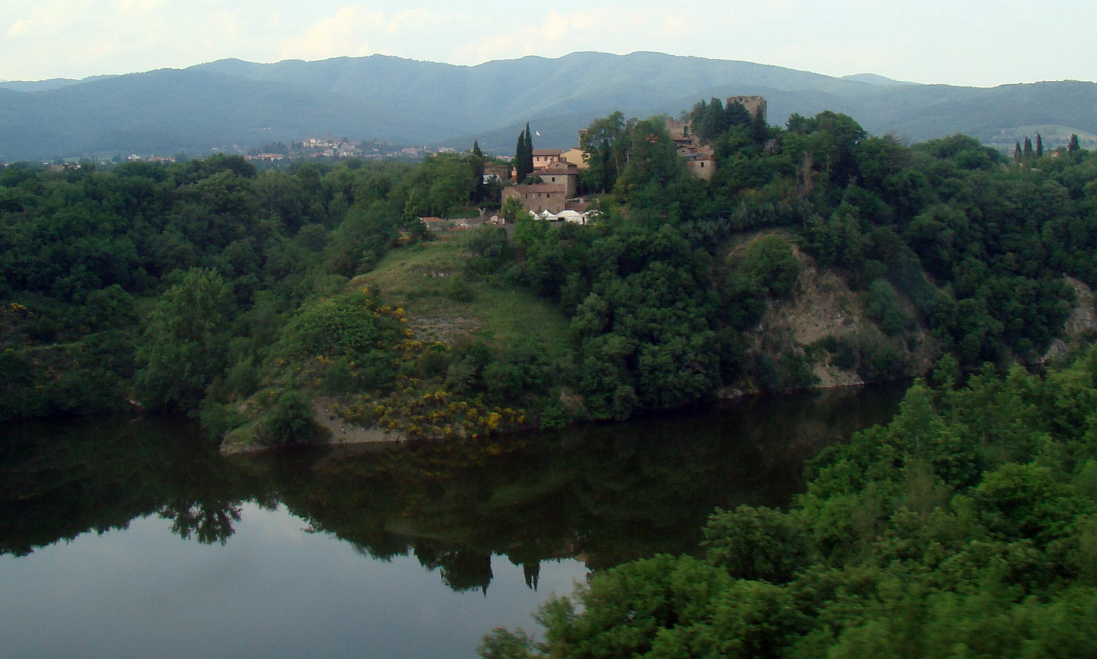 Borgo di Rondine (Tuscany)